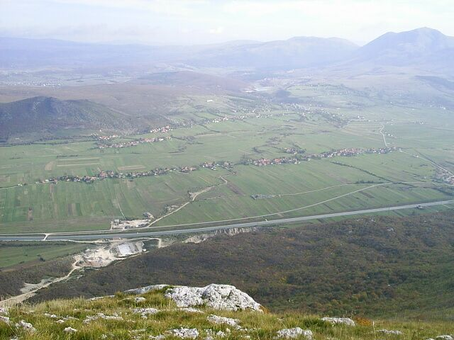 Duvansko polje in Bosnia-Herzegovina